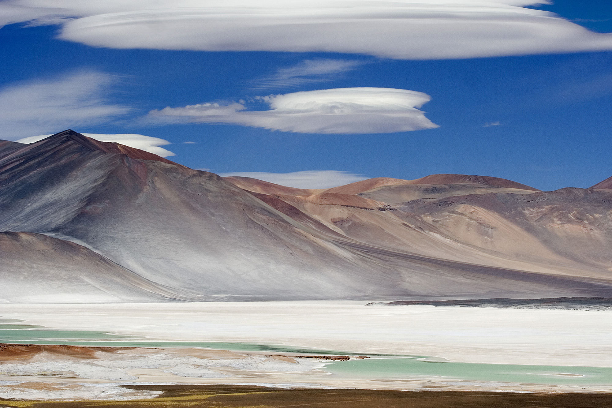 Salar de Talar near San Pedro de Atacama, Chile.